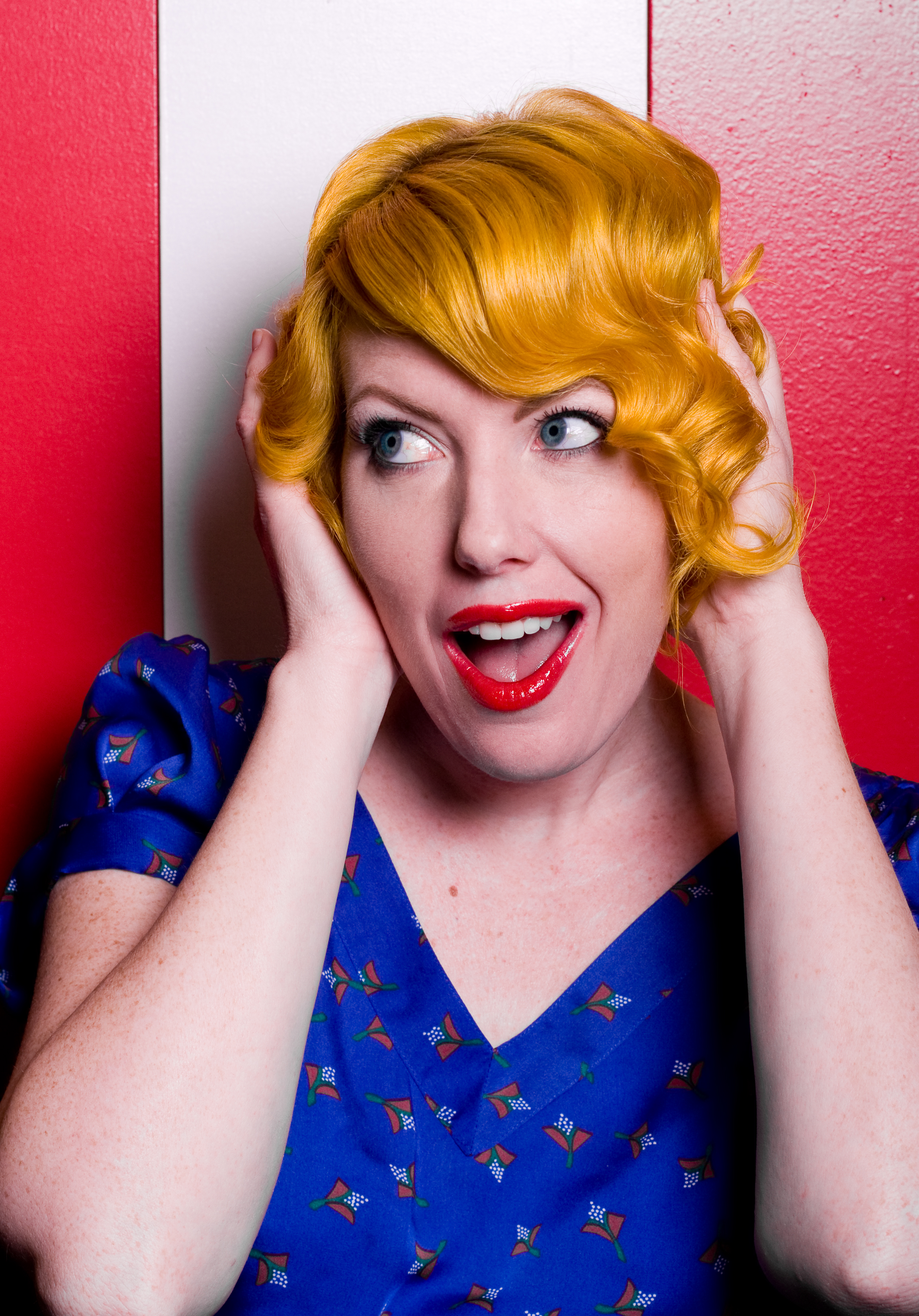 Celebrity Stylist Brig Van Osten from Bravo's Shear Genius